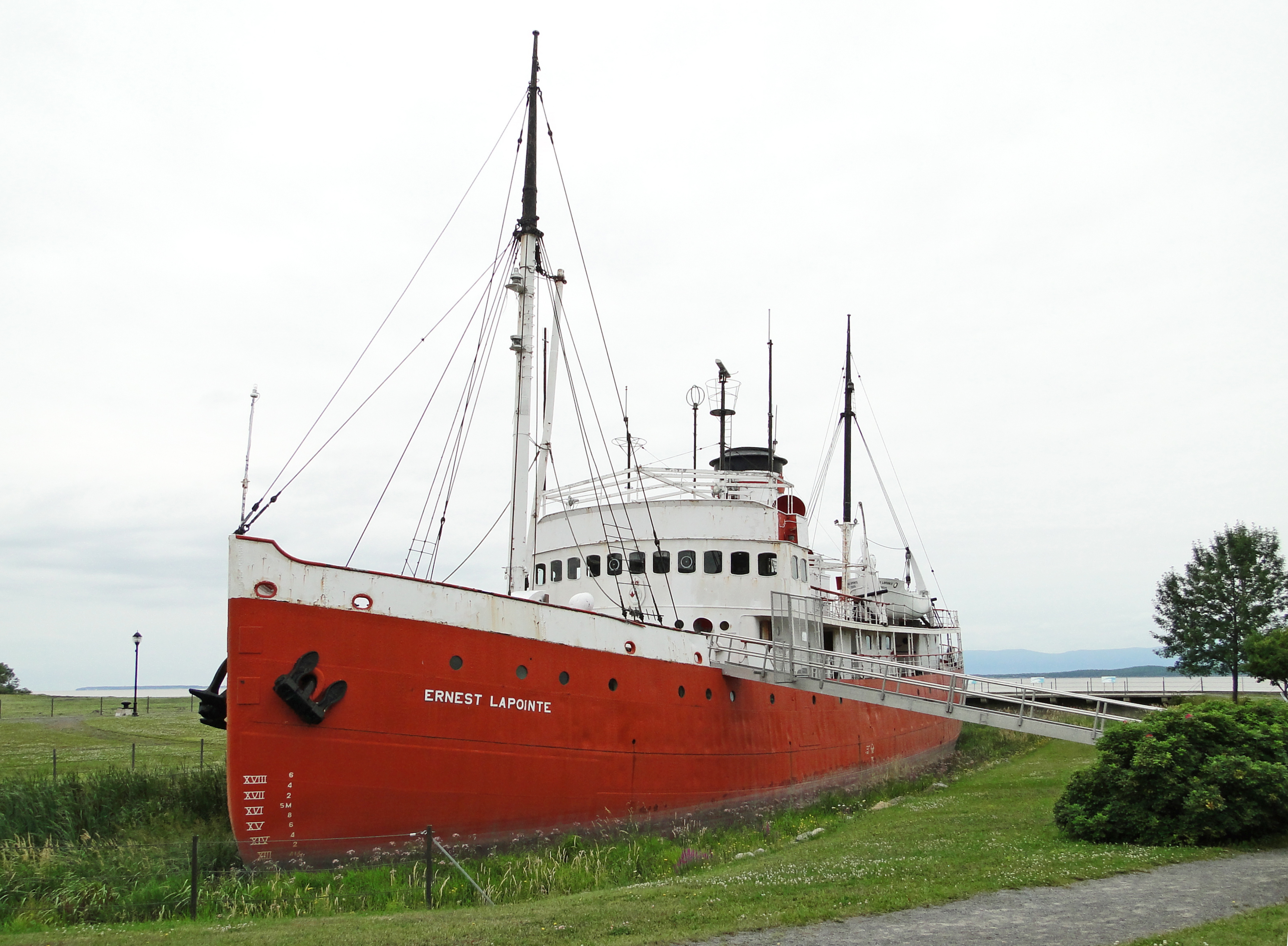 Ernest Lapointe icebreaker (1939-1978) at the Musée maritime du Québec, L'Islet, Canada